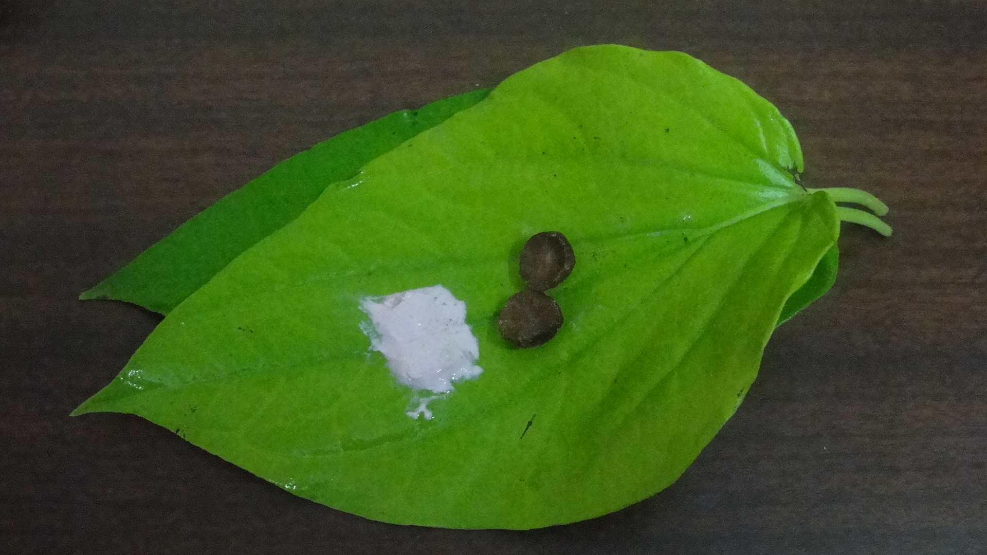 A closeup shot of beetle and arecanut and lime